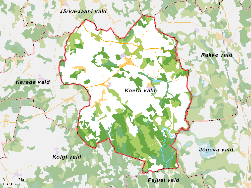 Map of municipality in Estonia